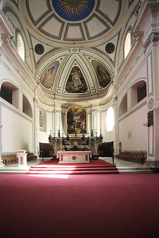 Inside the Franciscan church of St. Catherine, Alexandria, Egypt